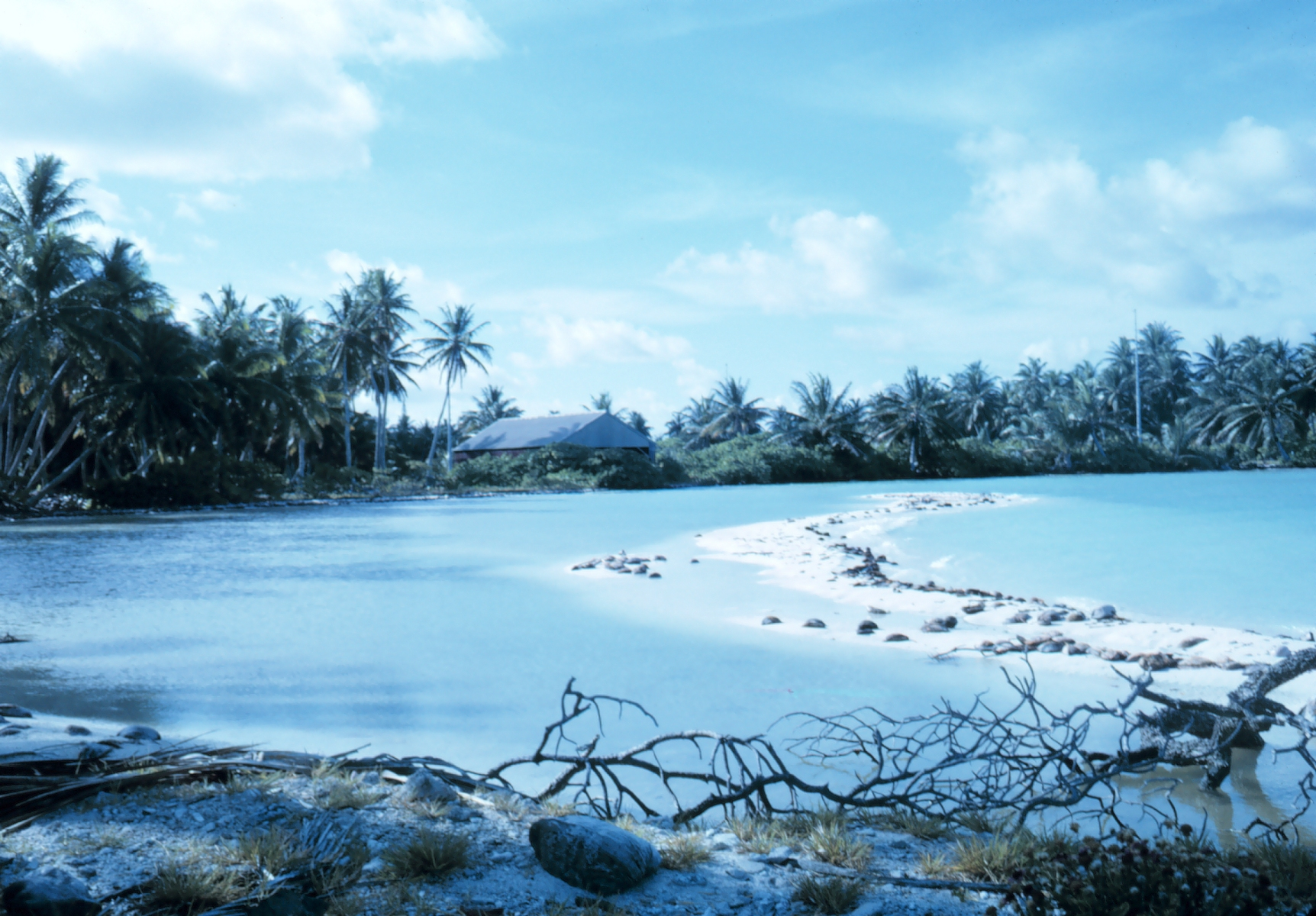 Natural sandbar covering coral rubble on lagoon side, Fanning Island (Tabuaeran), Line Islands, Pacific Ocean